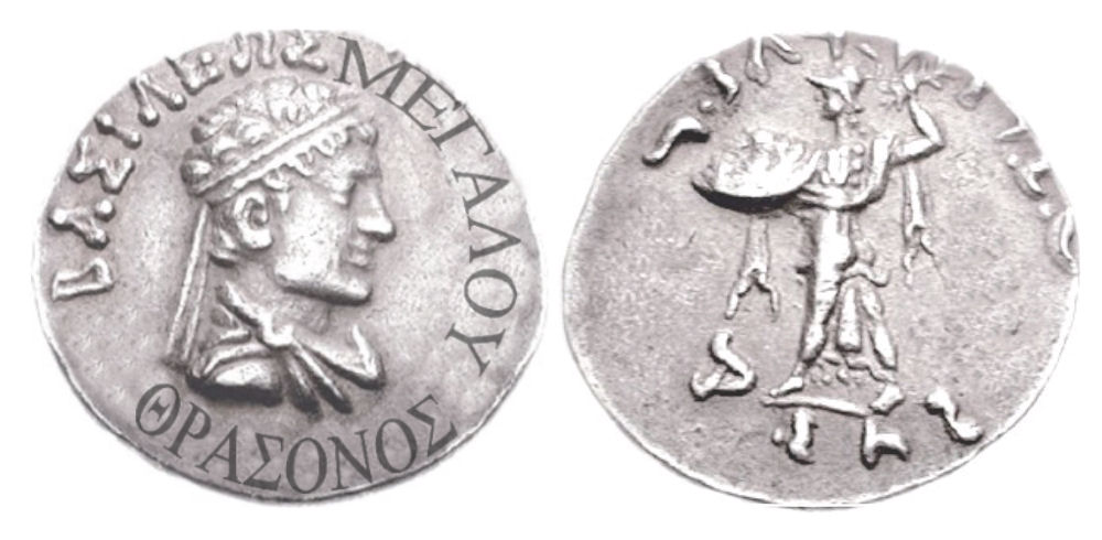 Thraso coin simulation based on Bopearachchi description and elements of proximate Epander coin.